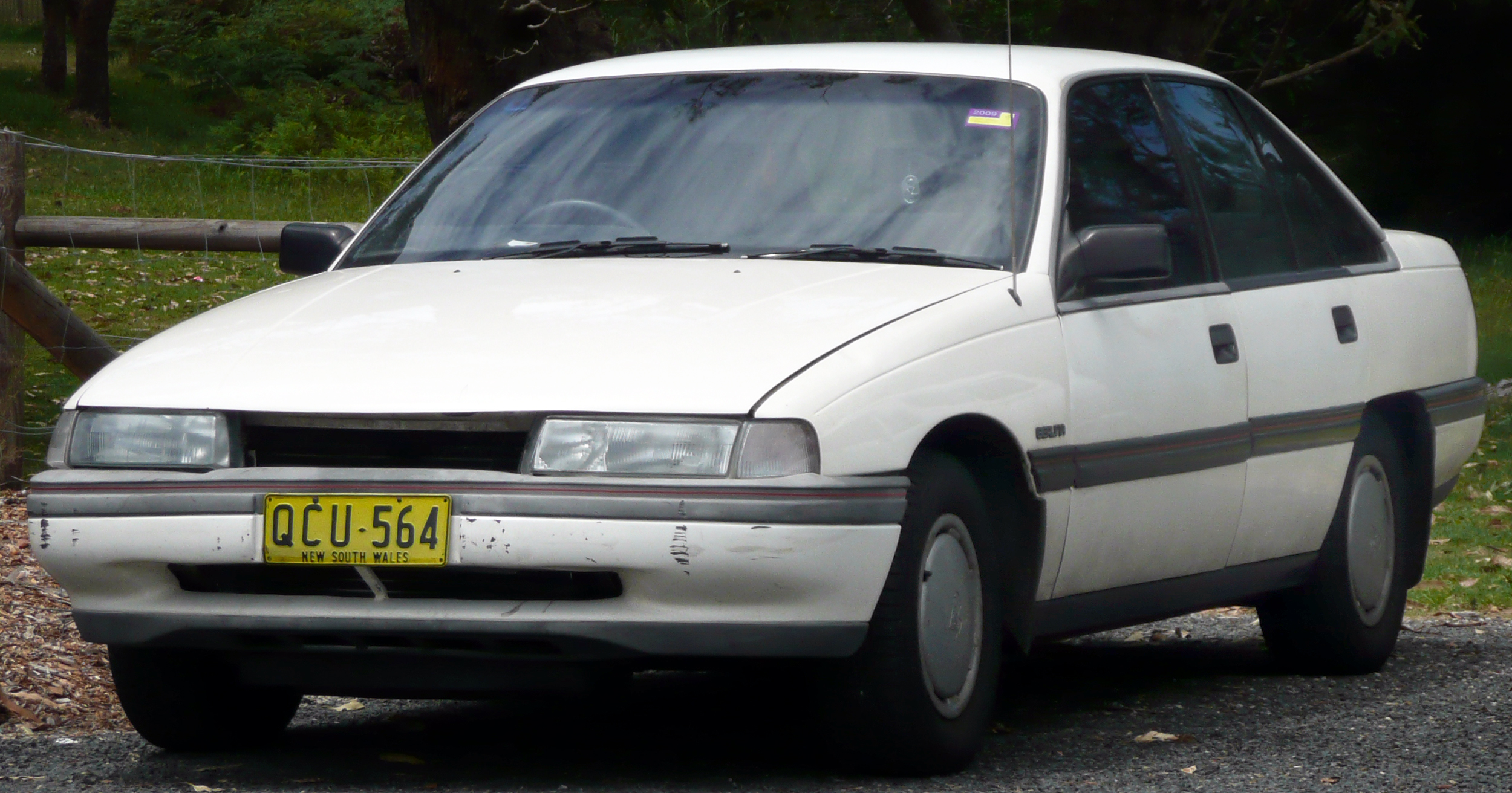 1989 Holden Berlina (VN) sedan. Photographed in Bundeena, New South Wales, Australia.